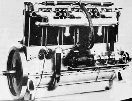 The original 6-cylinder engine: valve-port side. (Smithsonian photo 45598)